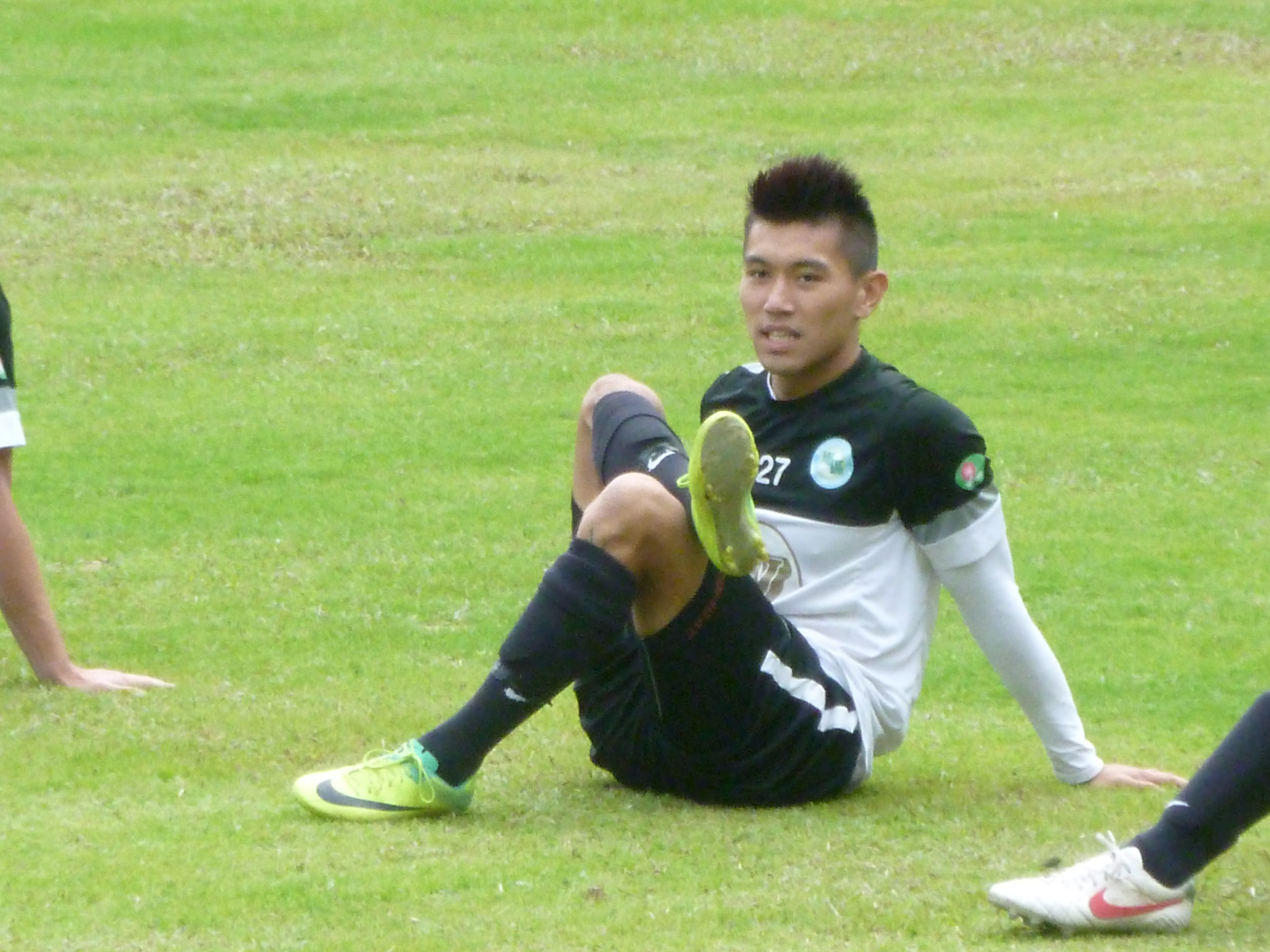 Landon Ling (26 Dec 2012 Hong Kong FA Cup, Tai Po vs Southern, Kowloon Bay Park) 中文（香港）: 林家亮 (26 Dec 2012 香港足總盃第一圈首回合, 大埔 vs 南區, 九龍灣公園)